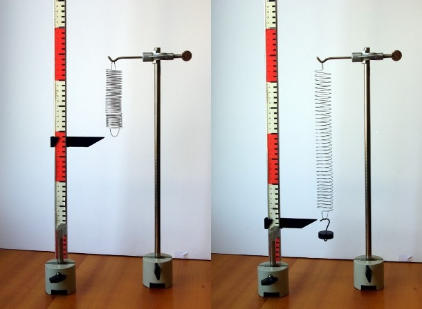 Hook2